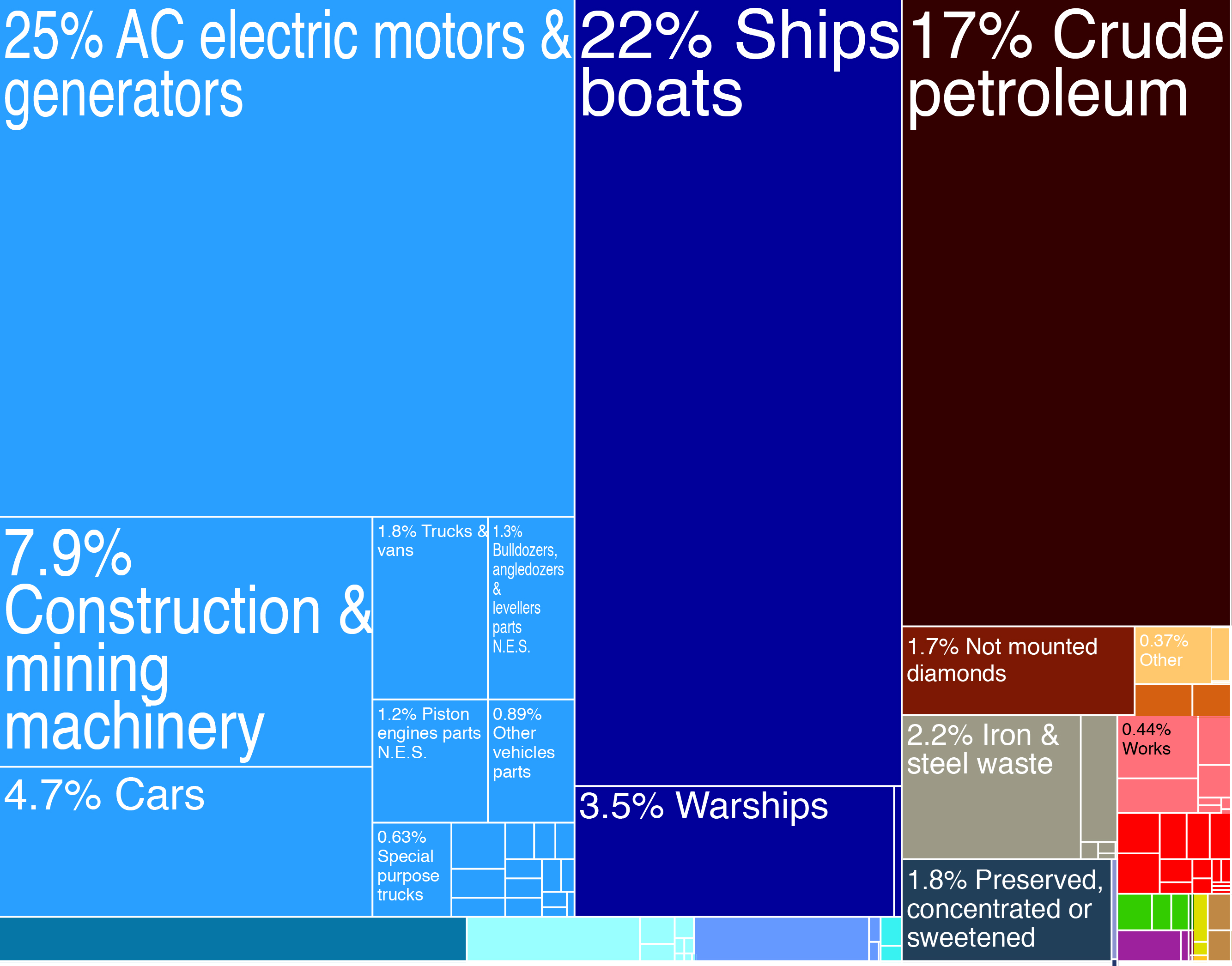 Exports of Gibraltar Treemap. Year 2009